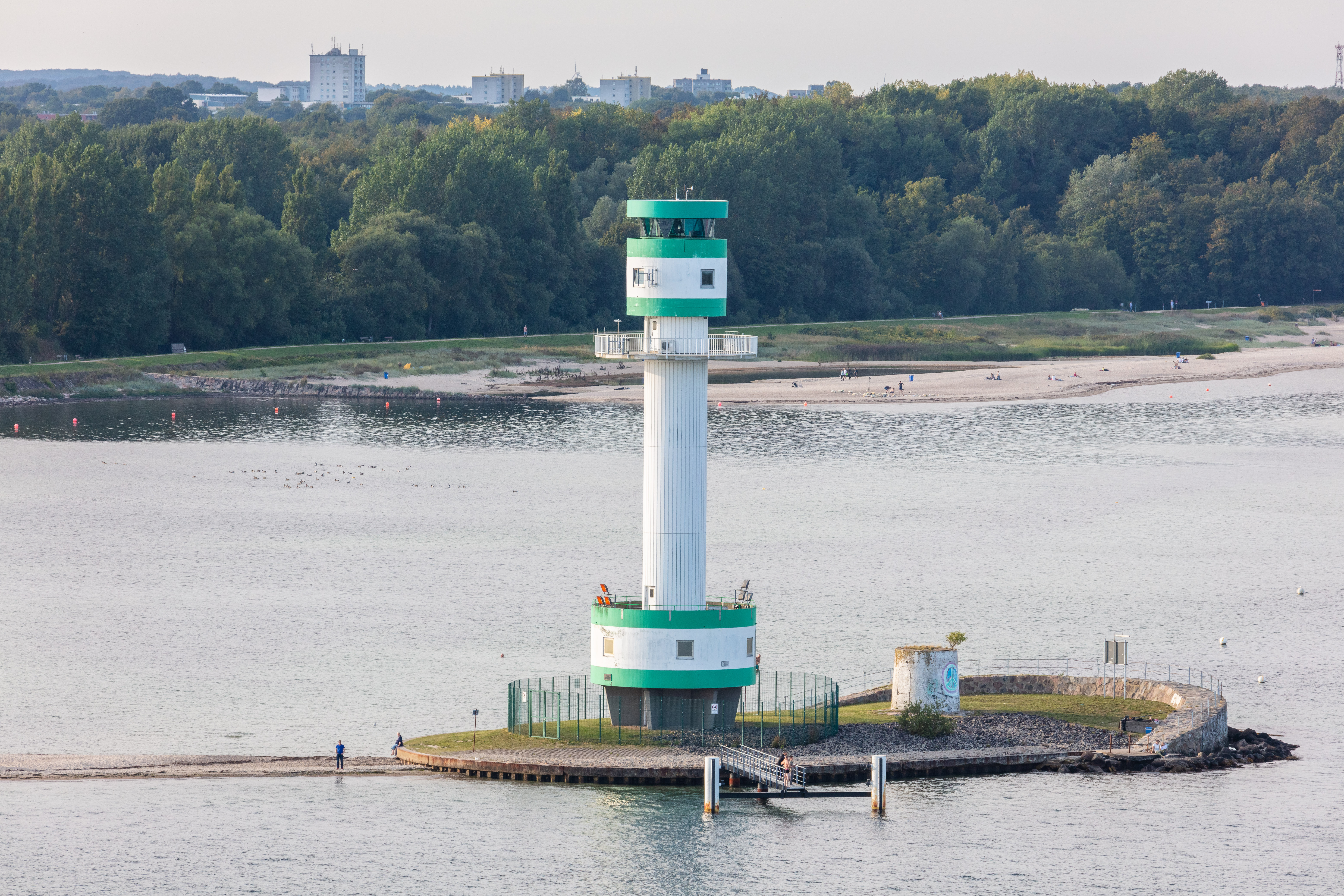 Friedrichsort lighthouse, Kiel, Germany